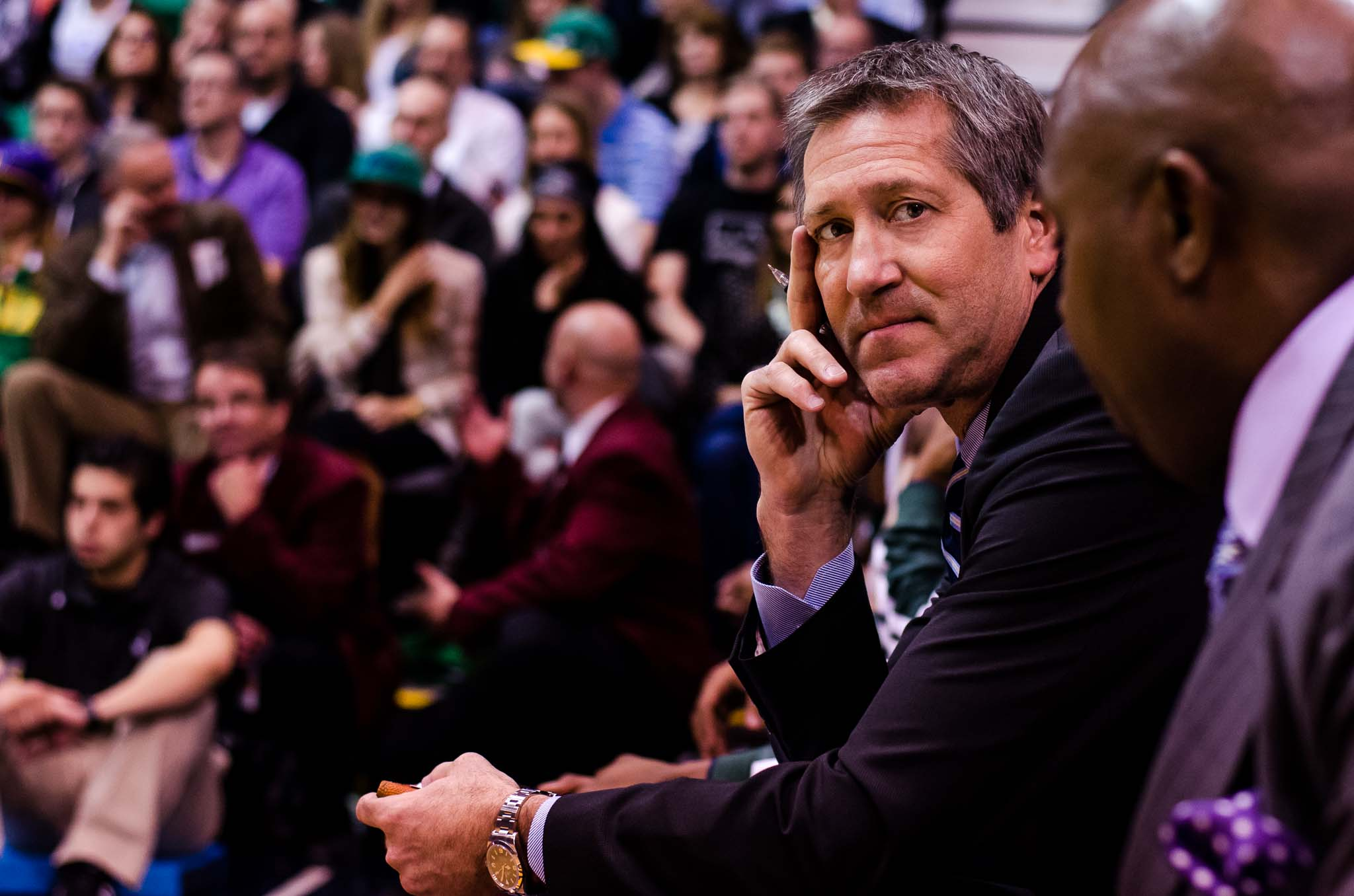 Coach Jeff Hornacek and the bench of the Utah Jazz at EnergySolutions Arena in Salt Lake City, UT